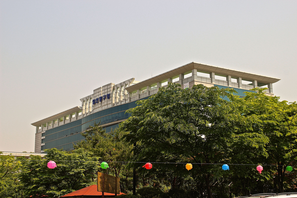 This Building is the district office of Goyang City, South Korea.